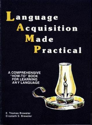 Cover of book with this title